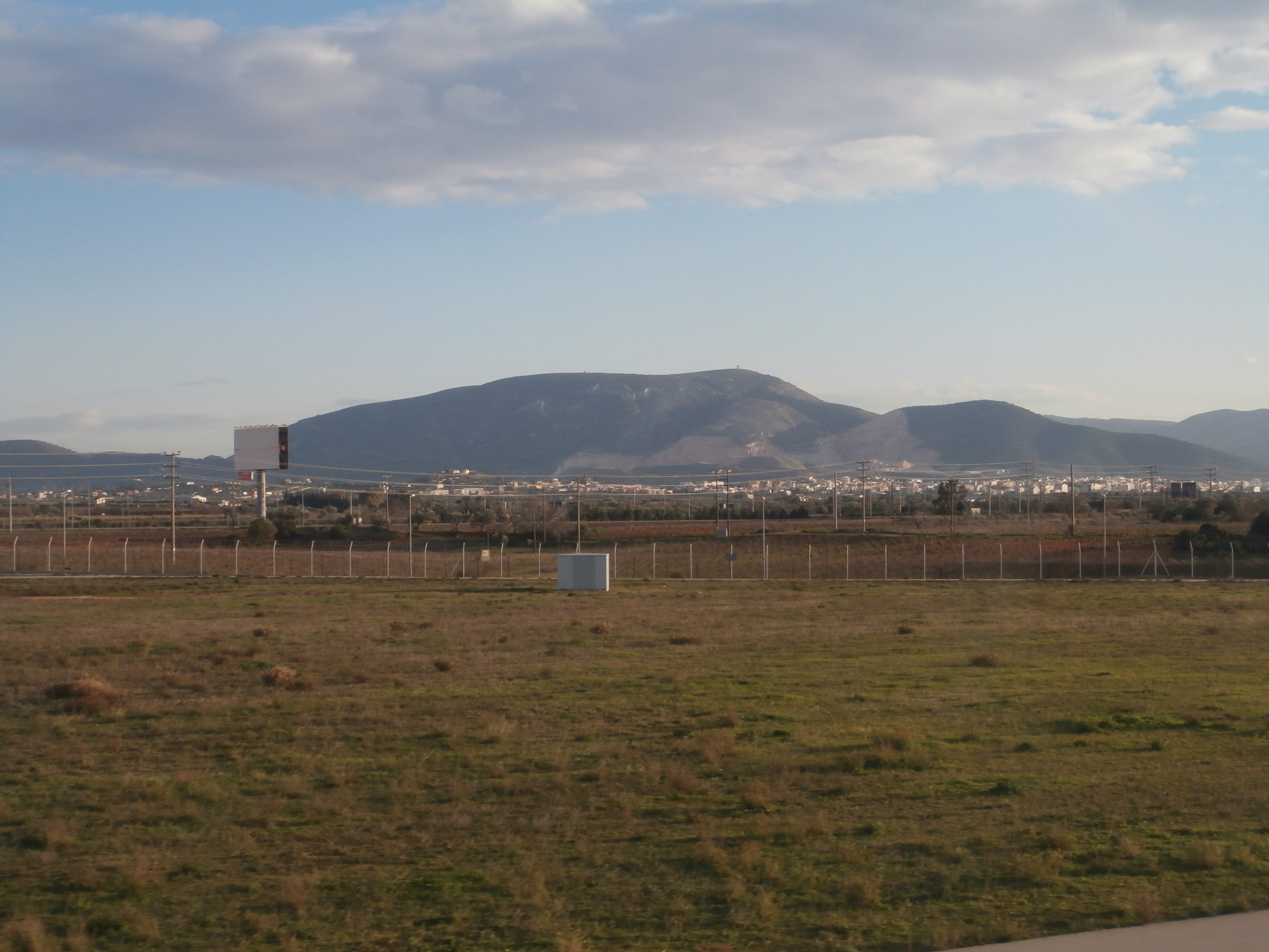 Mt Merenda as seen from Athens Airport